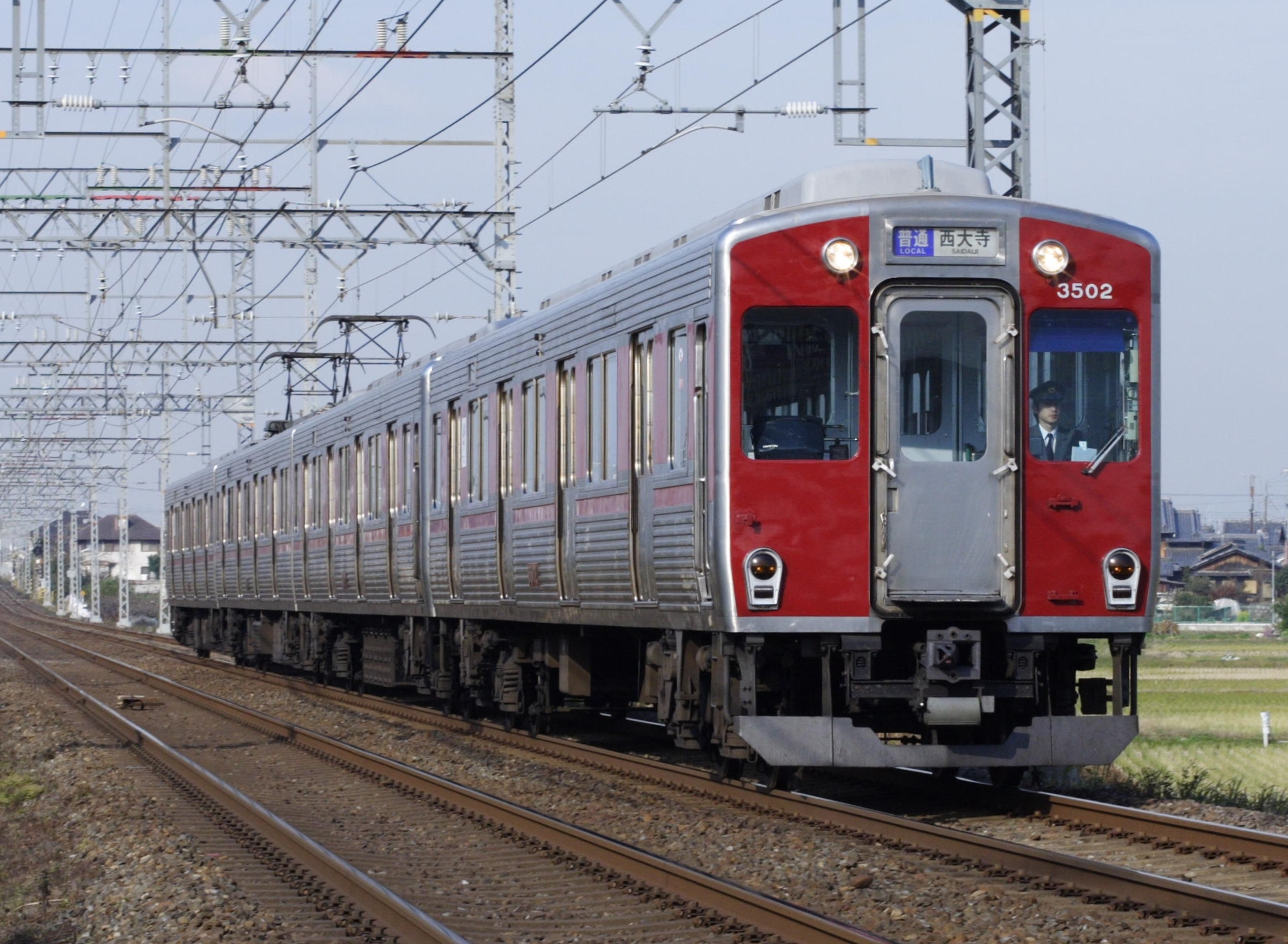 近畿日本鉄道・3000系電車/series 3000 electric car of Kintetsu Corporation